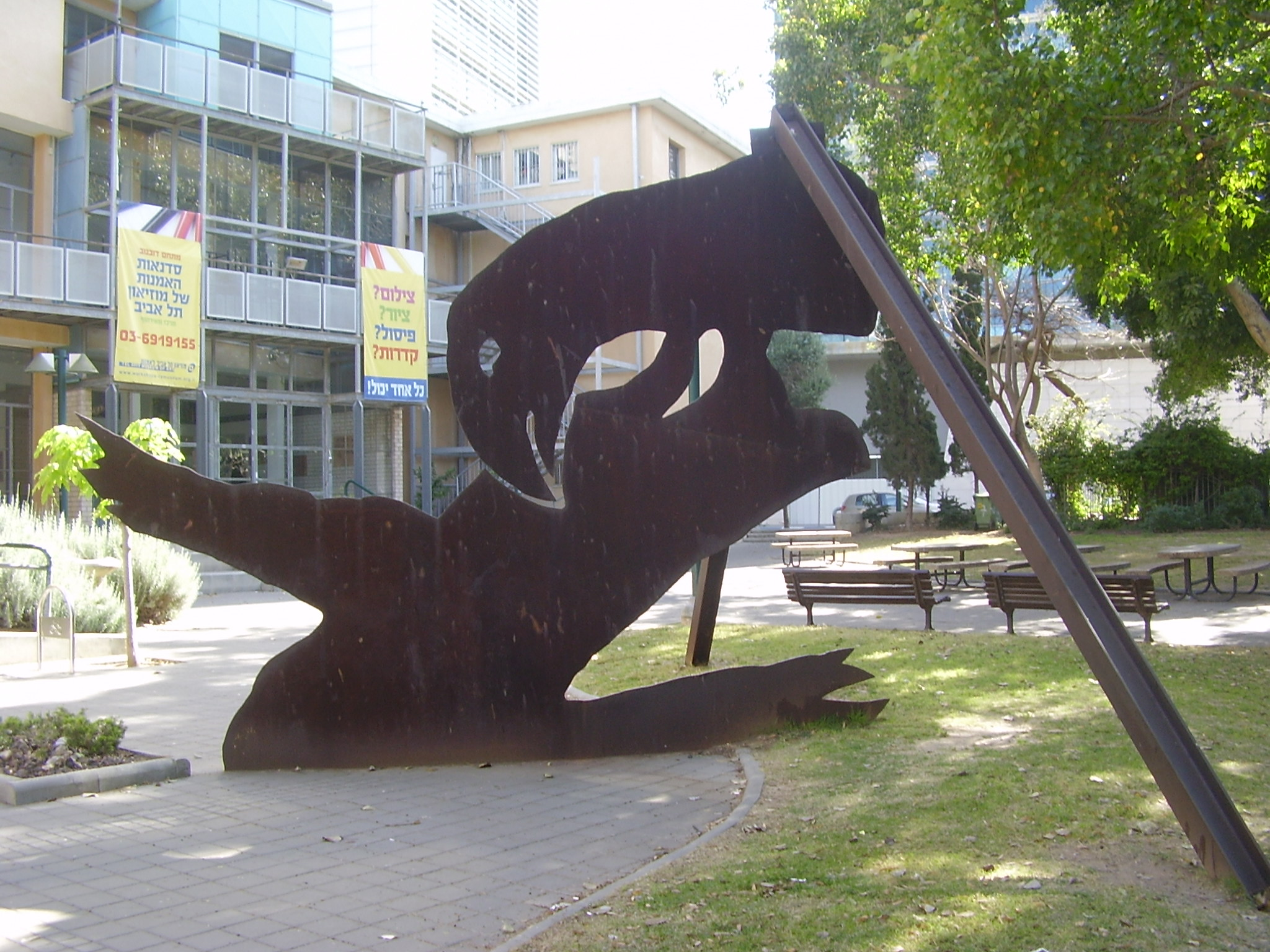 "PrometHeus" By Menashe Kadishman, Tel Aviv